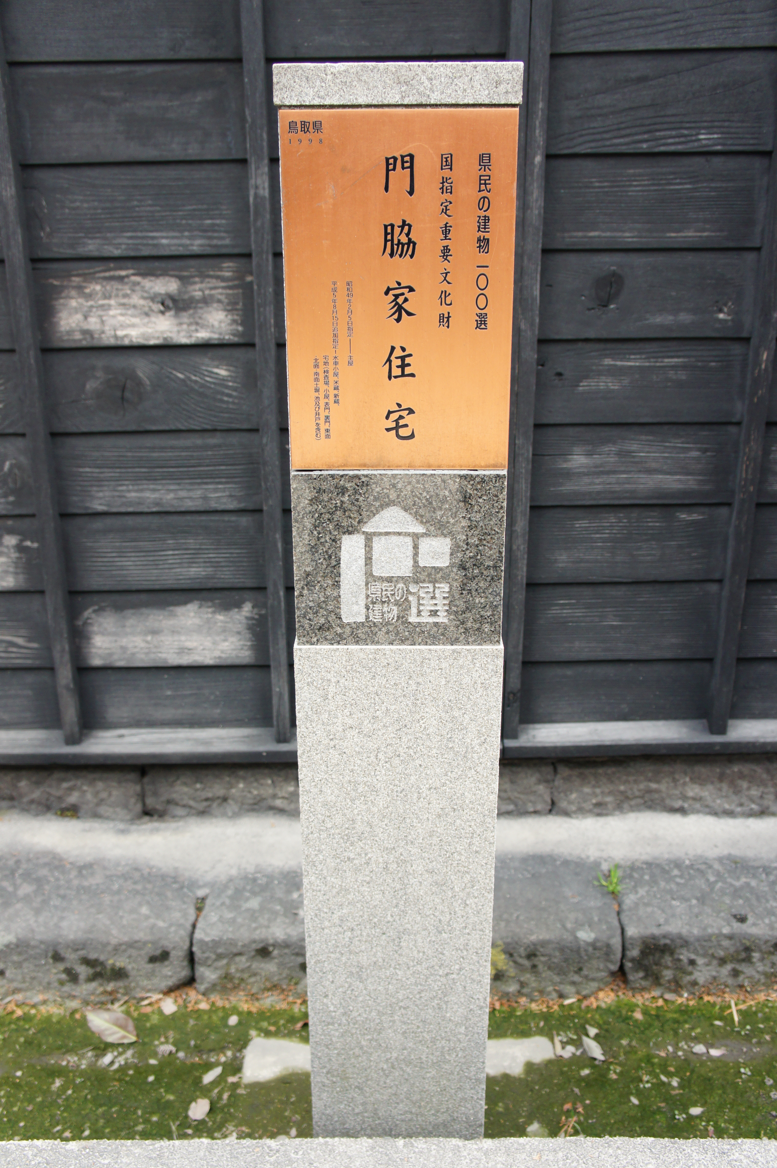 Monument of "Kenmin-no-Tatemono 100 Sen" and "Important Cultural Properties of Japan" of Kadowaki Residence at Daisen Town, Saihaku District, Tottori Prefecture, Japan.